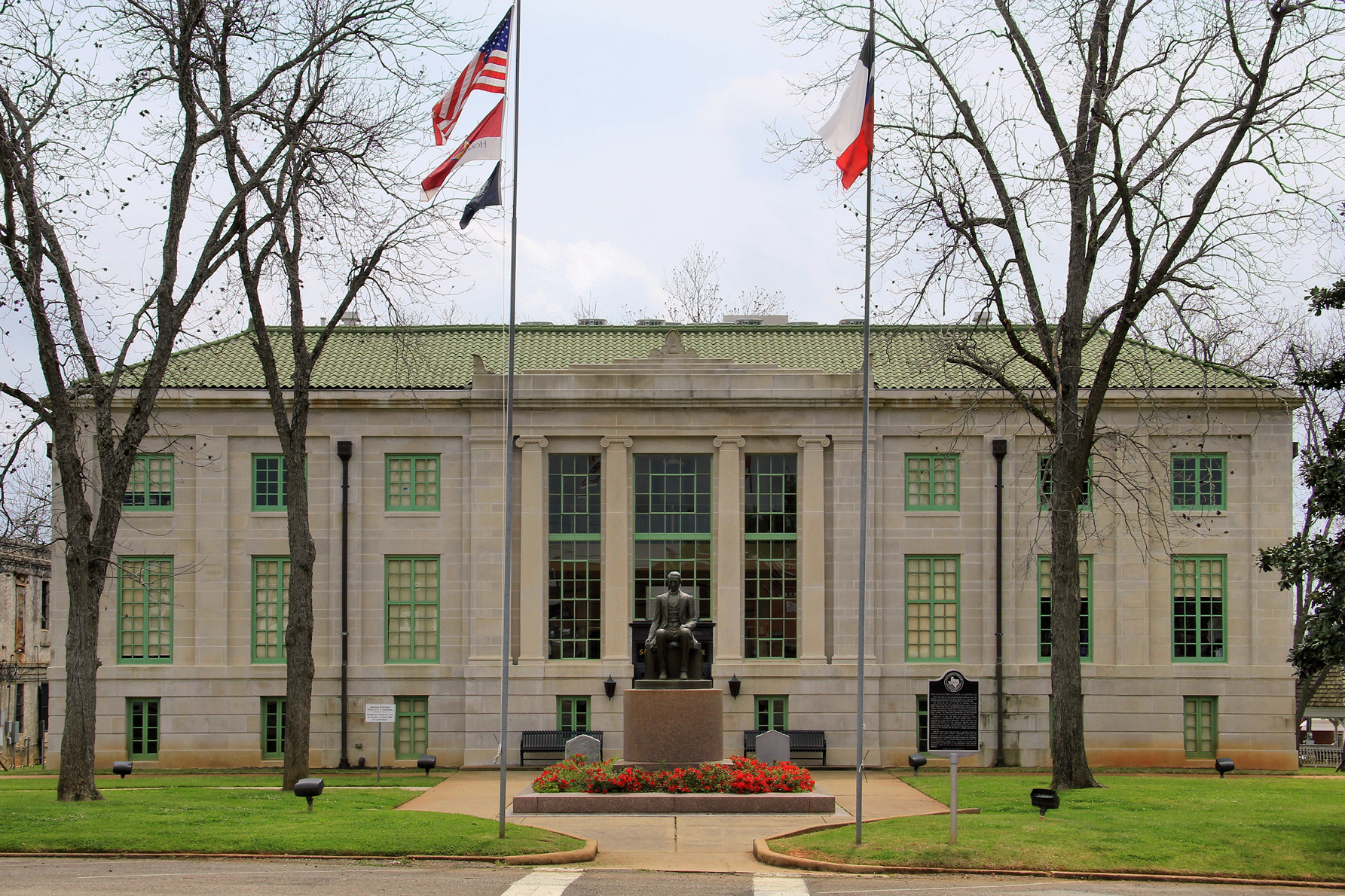 The San Augustine County Courthouse in San Augustine, Texas, United States was built in 1927. The courthouse was designated a Recorded Texas Historic Landmark in 2001 and listed on the National Register of Historic Places on August 20, 2004.